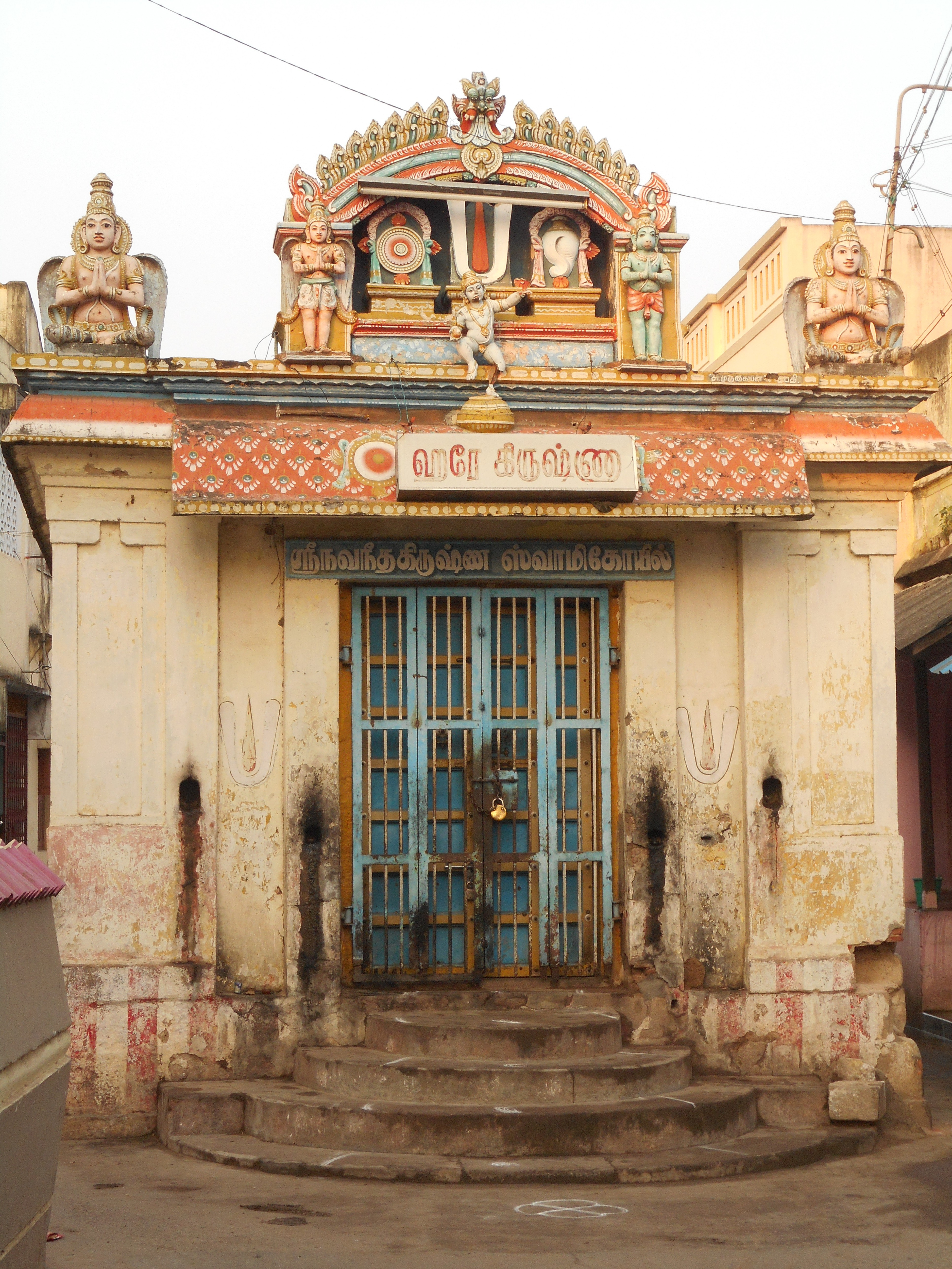 Kumbakonam Navaneethakrishnan temple கும்பகோணம் நவநீதகிருஷ்ணன் கோயில்